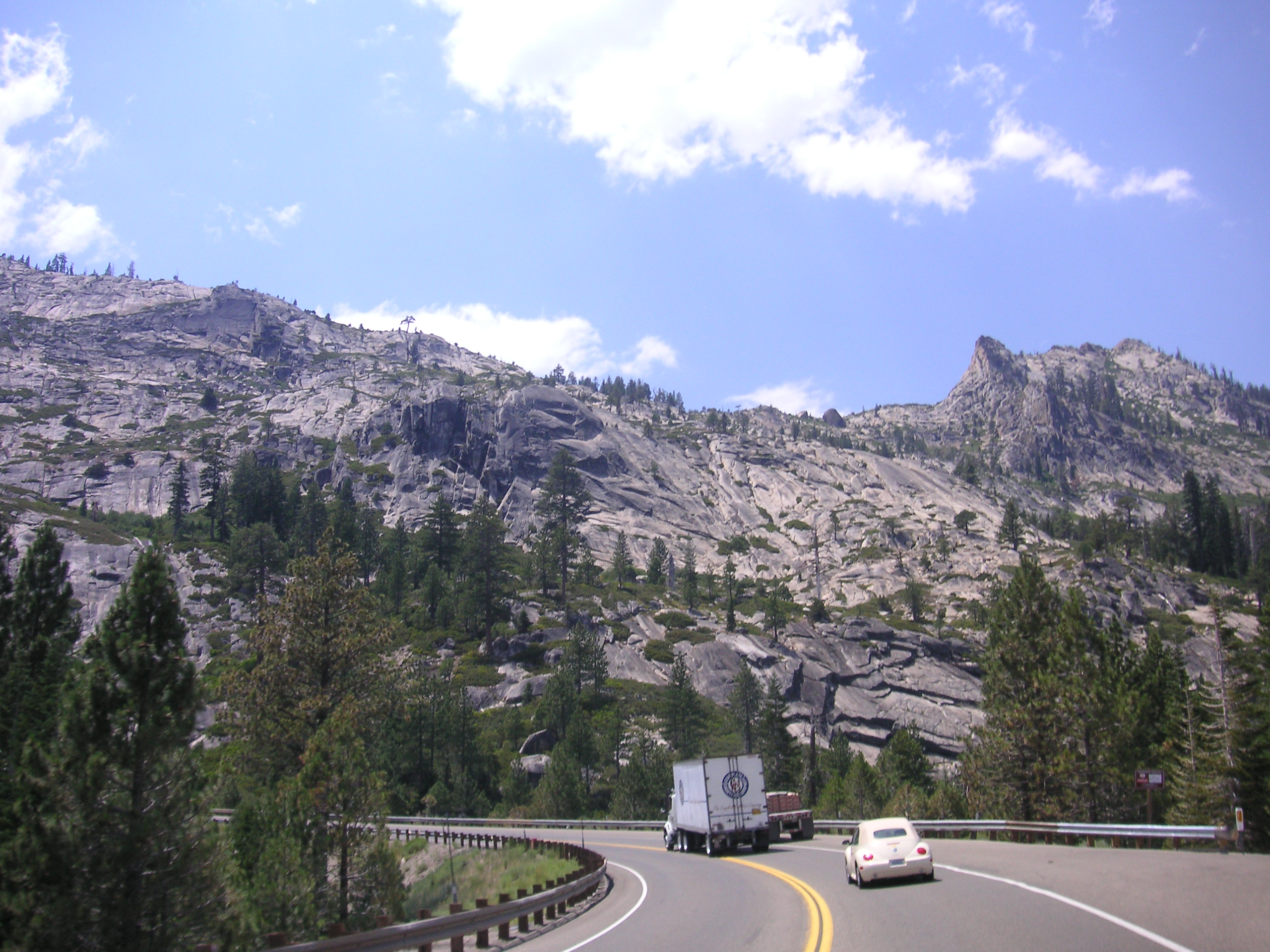 Climbing westbound towards Echo Summit on US 50